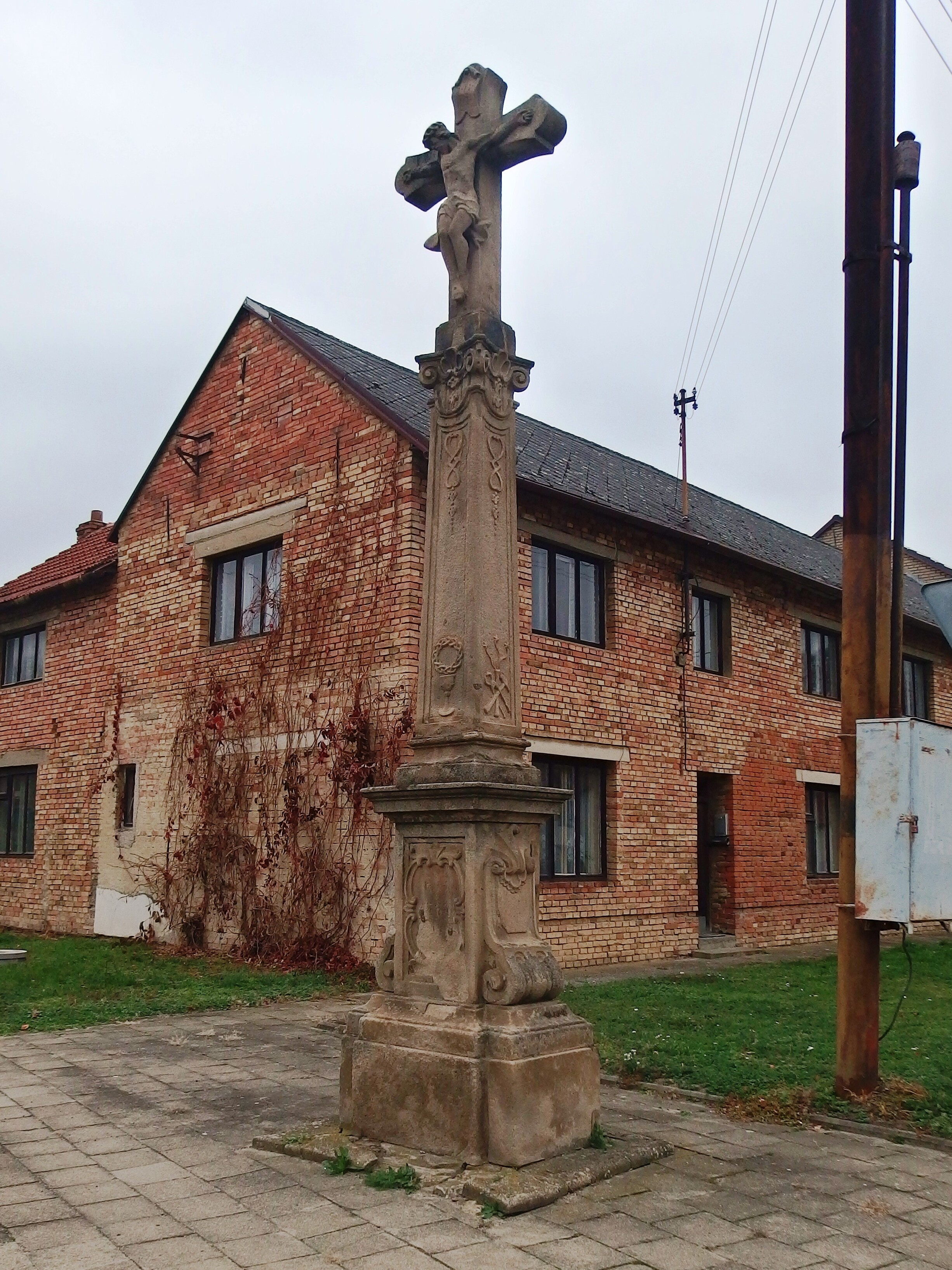 Malínky, Vyškov District, Czech Republic.